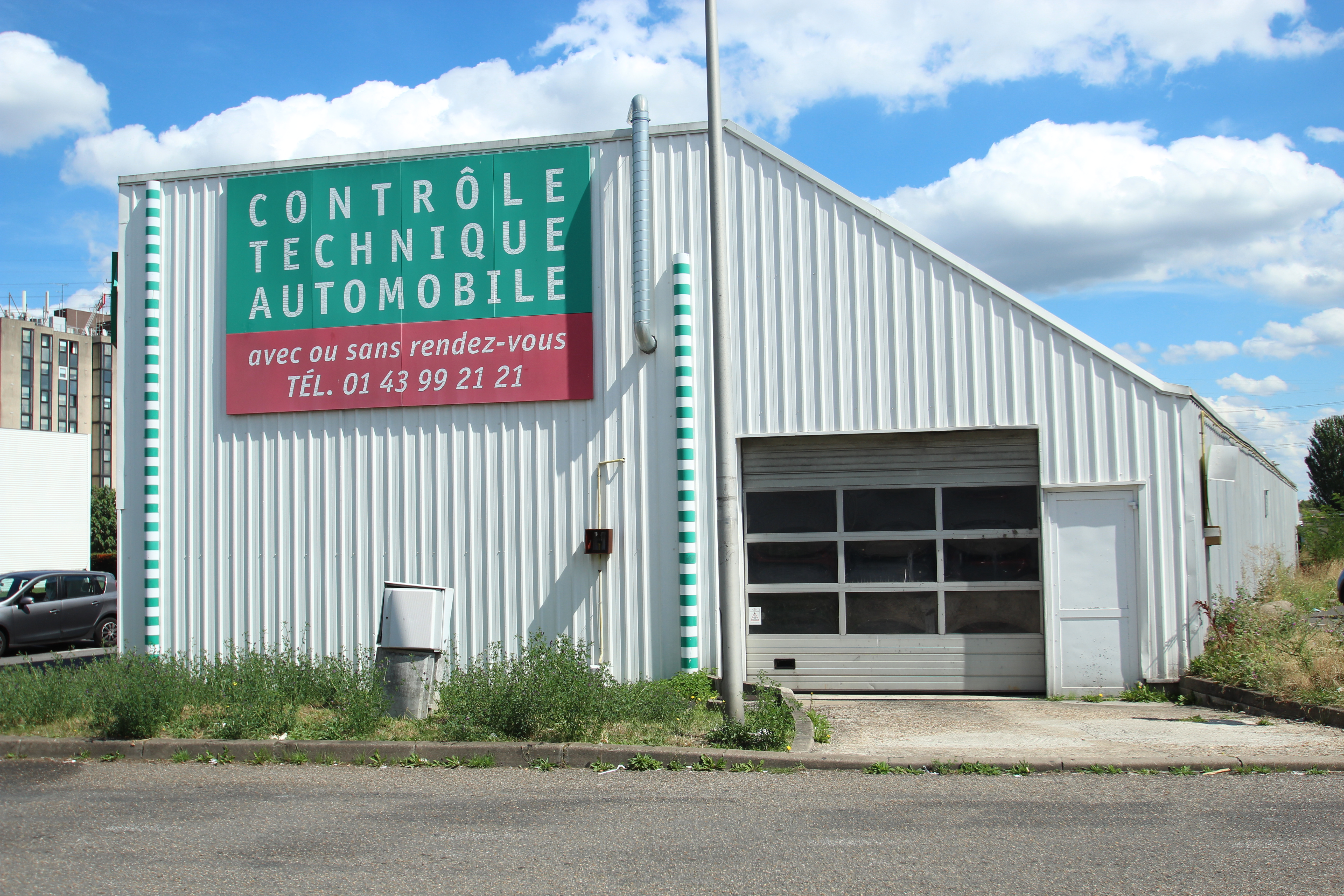 The Carrefour Pompadour (Pompadour roundabout in french) in Créteil, France. Vehicle inspection. Object location48° 46′ 27.77″ N, 2° 26′ 21.26″ E This picture as been uploaded as part of L'Été des régions Wikipédia.